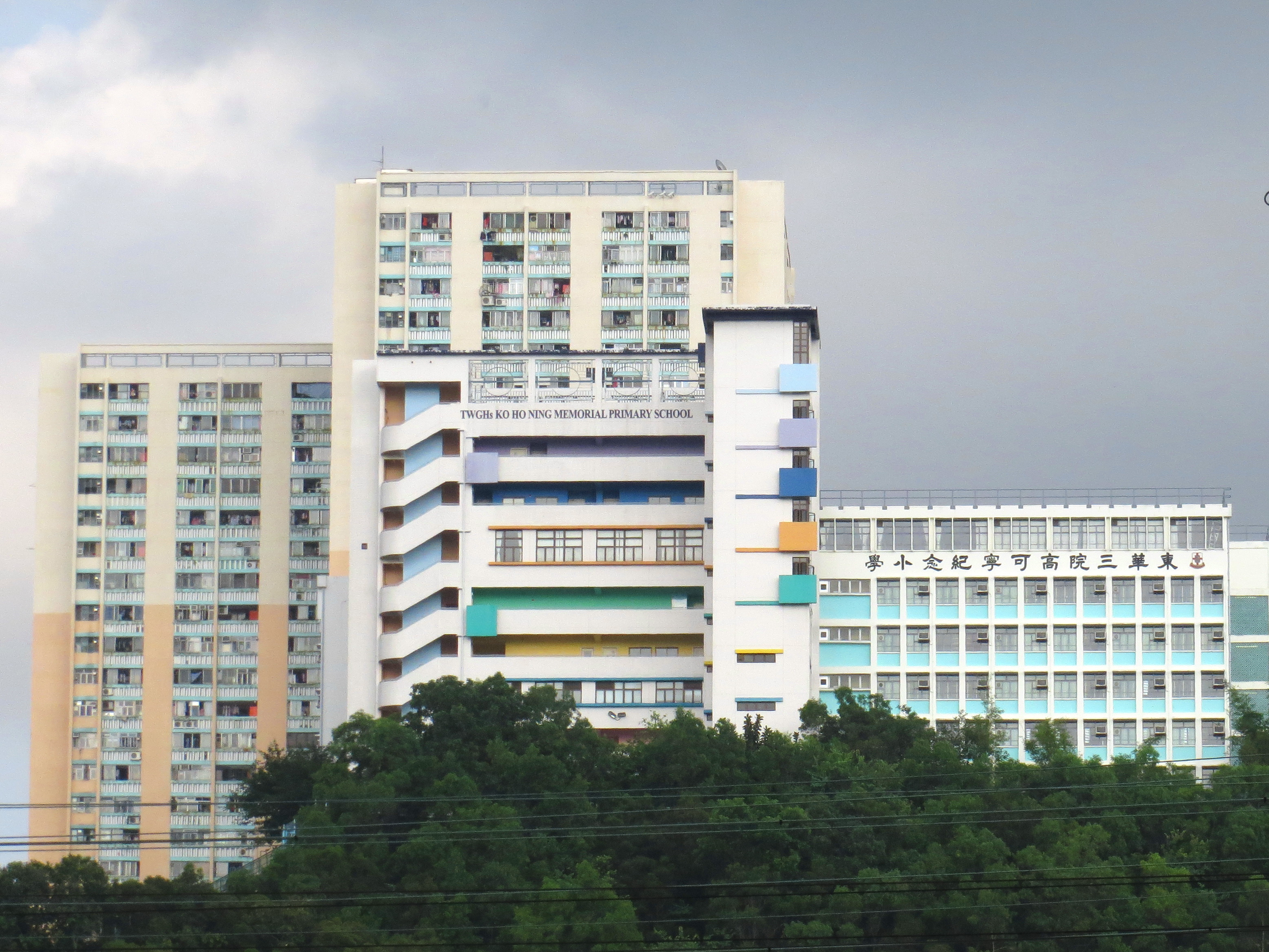 TWGHs (Tung Wah Group of Hospitals) Ko Ho Ning Memorial Primary School, Lai Yiu Estate, Kwai Chung, New Territories, Hong Kong.